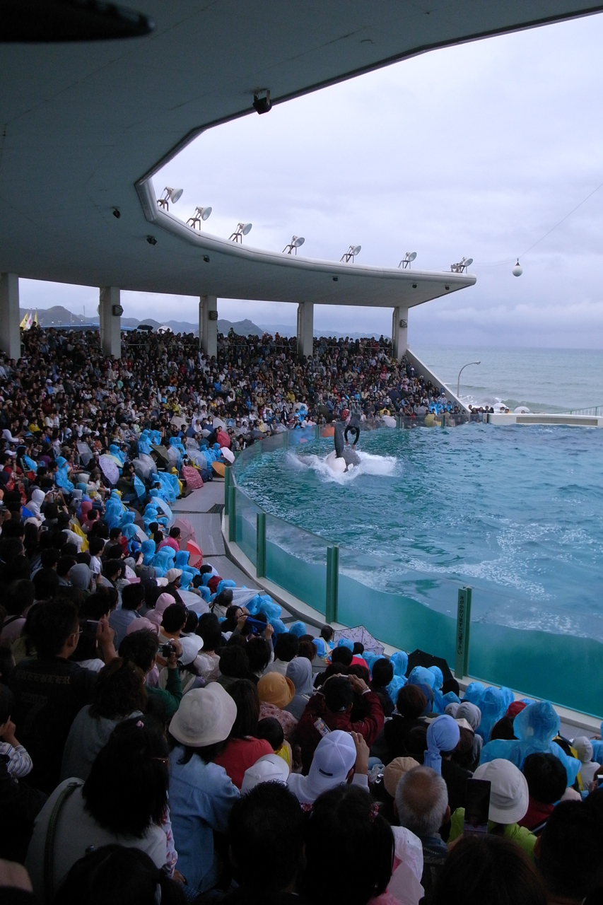 Ocean stadium in Kamogawa Sea World, Kamogawa, Chiba, Japan.